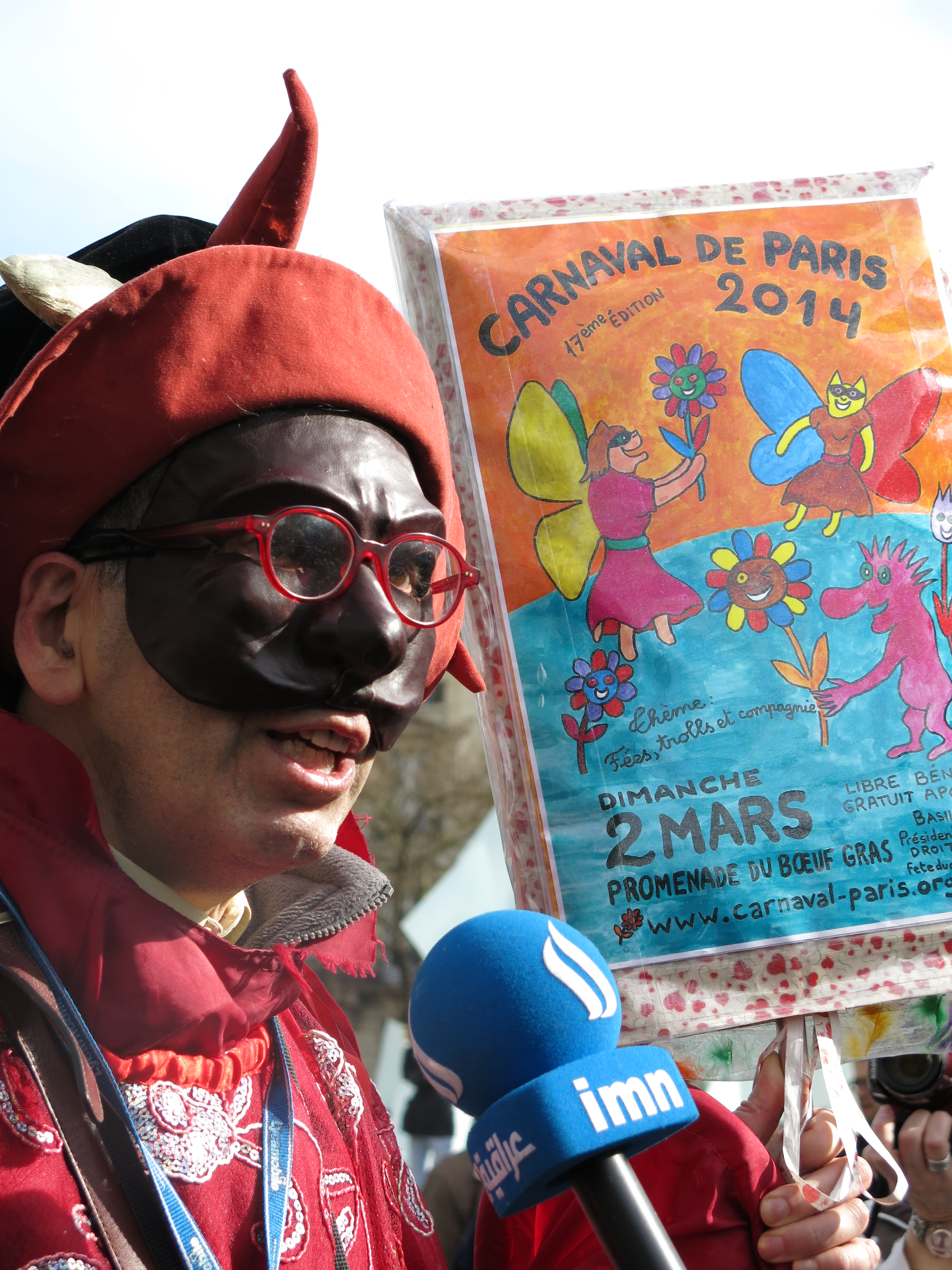 Sunday, March 2, 2014're partying and cut and run happily at the Carnival of Paris Gambetta Square in place of the Republic! Free theme: "Fairies, trolls and company."